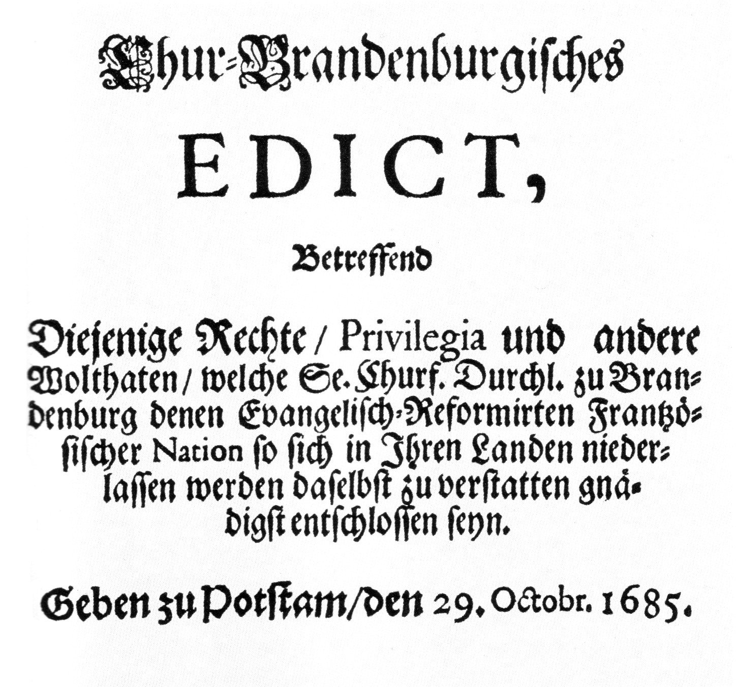 Title-page of the Edict of Potsdam